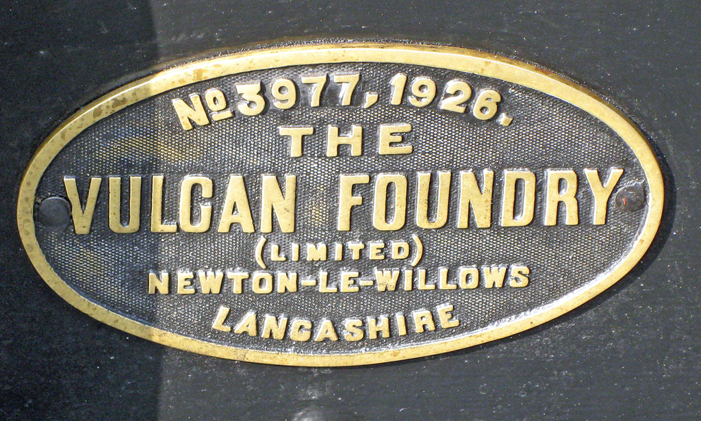 Vulcan Foundry works plate No. 3977 of 1926 on a preserved LMS Fowler Class 3F 0-6-0T locomotive No. 47406